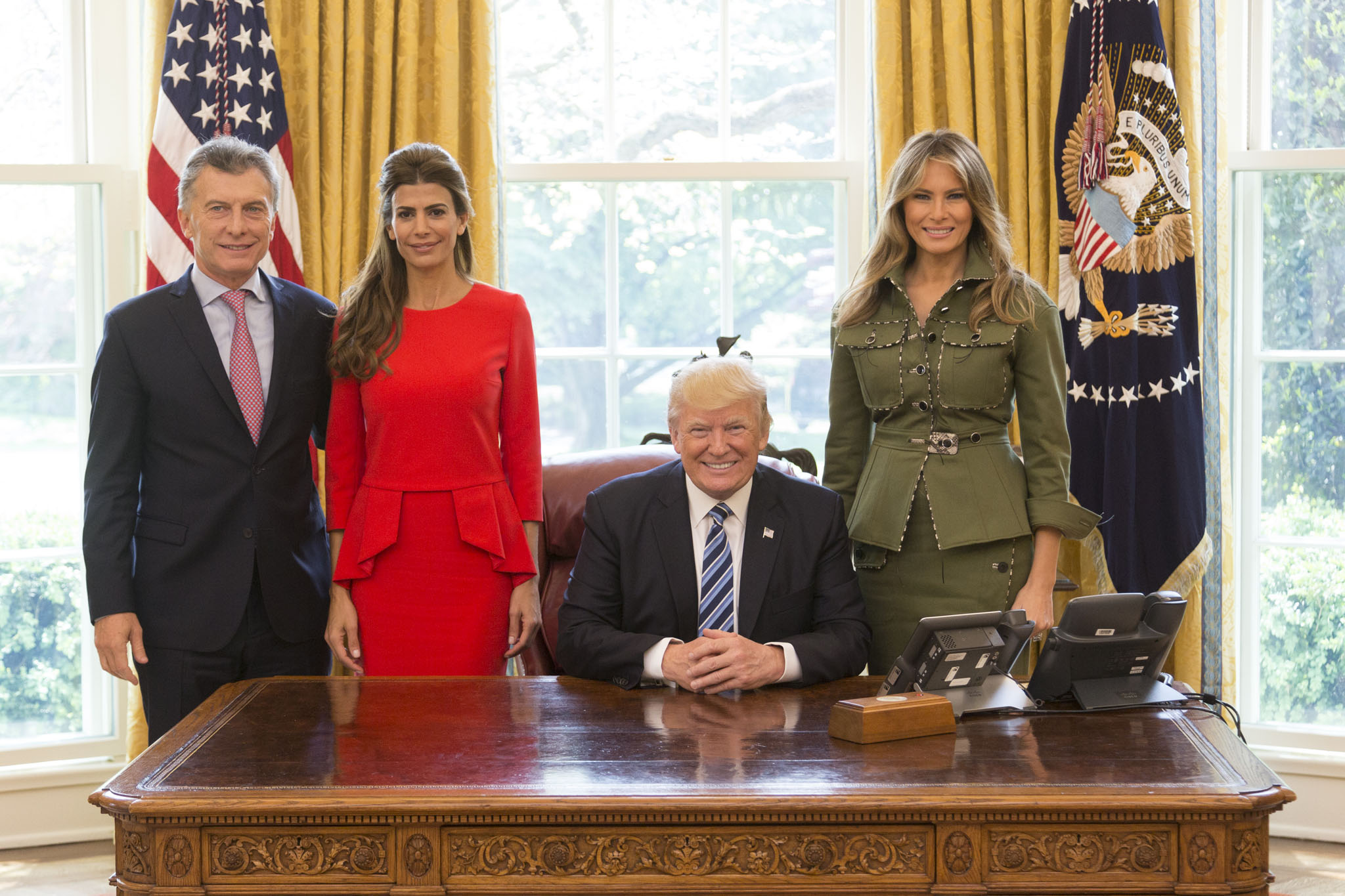 President Donald Trump and First Lady Melania Trump pose for photos, Thursday, April 27, 2017, with Argentine President Mauricio Macri and his wife, Mrs. Juliana Awada, in the Oval Office of the White House in Washington, D.C. (Official White House Photo by Shealah Craighead)